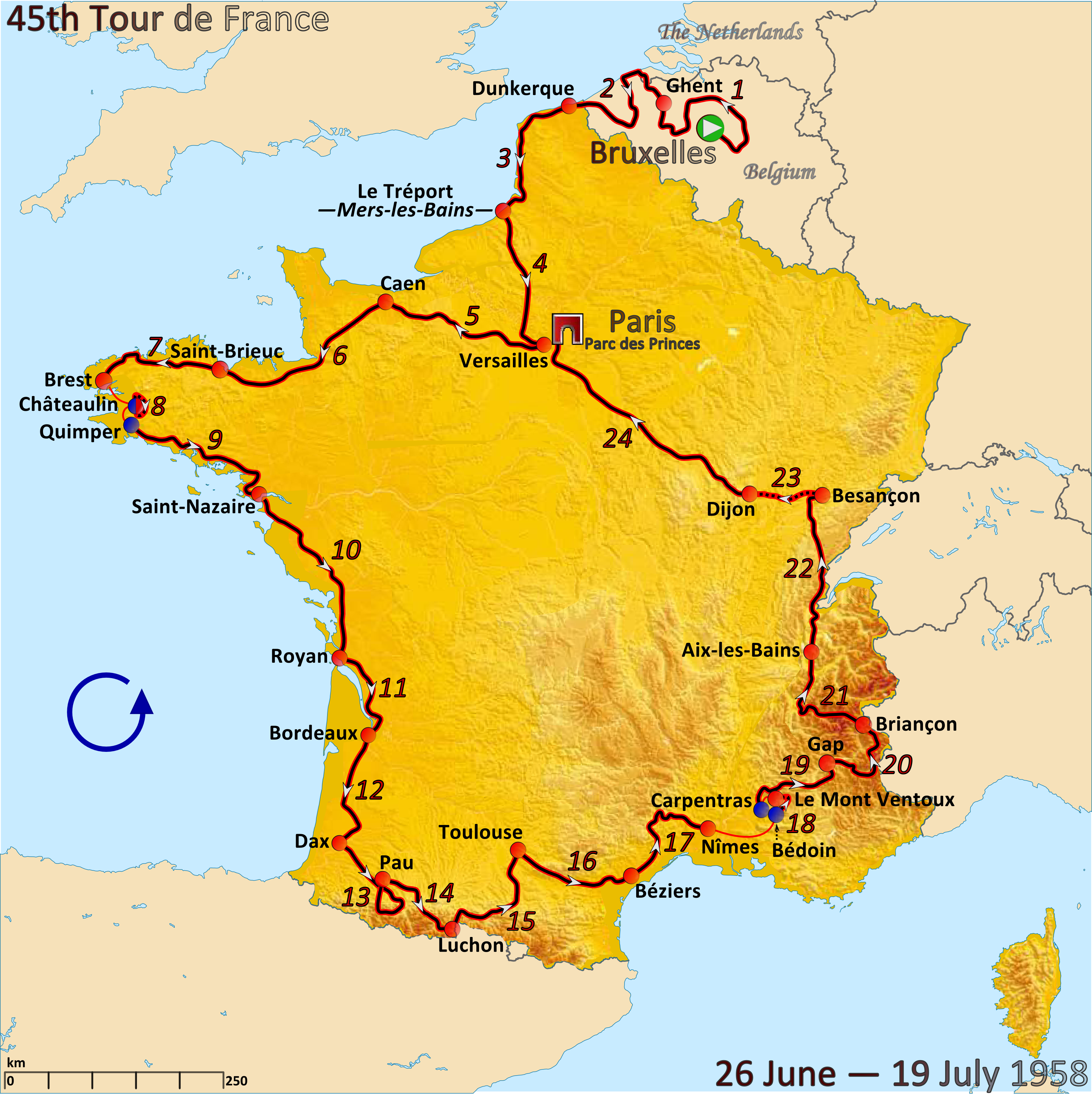 Map of the 1958 Tour de France created in Inkscape using accurate stage maps from touratlas.nl.